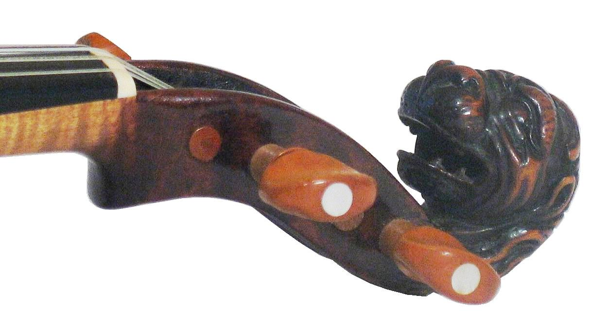 Violin J.Stainer 165? Lionheadscroll